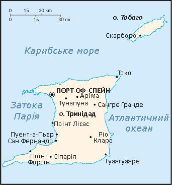 Map of Trinidad and Tobago in Ukrainian (reworked from Image:Td-map.gif)